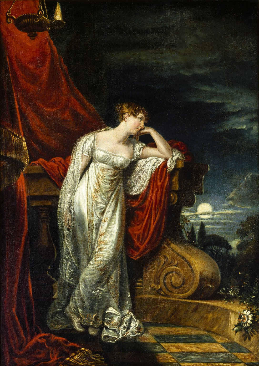 From Act II, Scene 2 of William Shakespeare's Romeo and Juliet